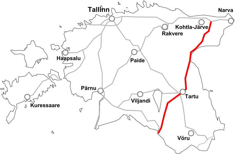 Map of Estonian national road 3, white background. Bigger cities marked.